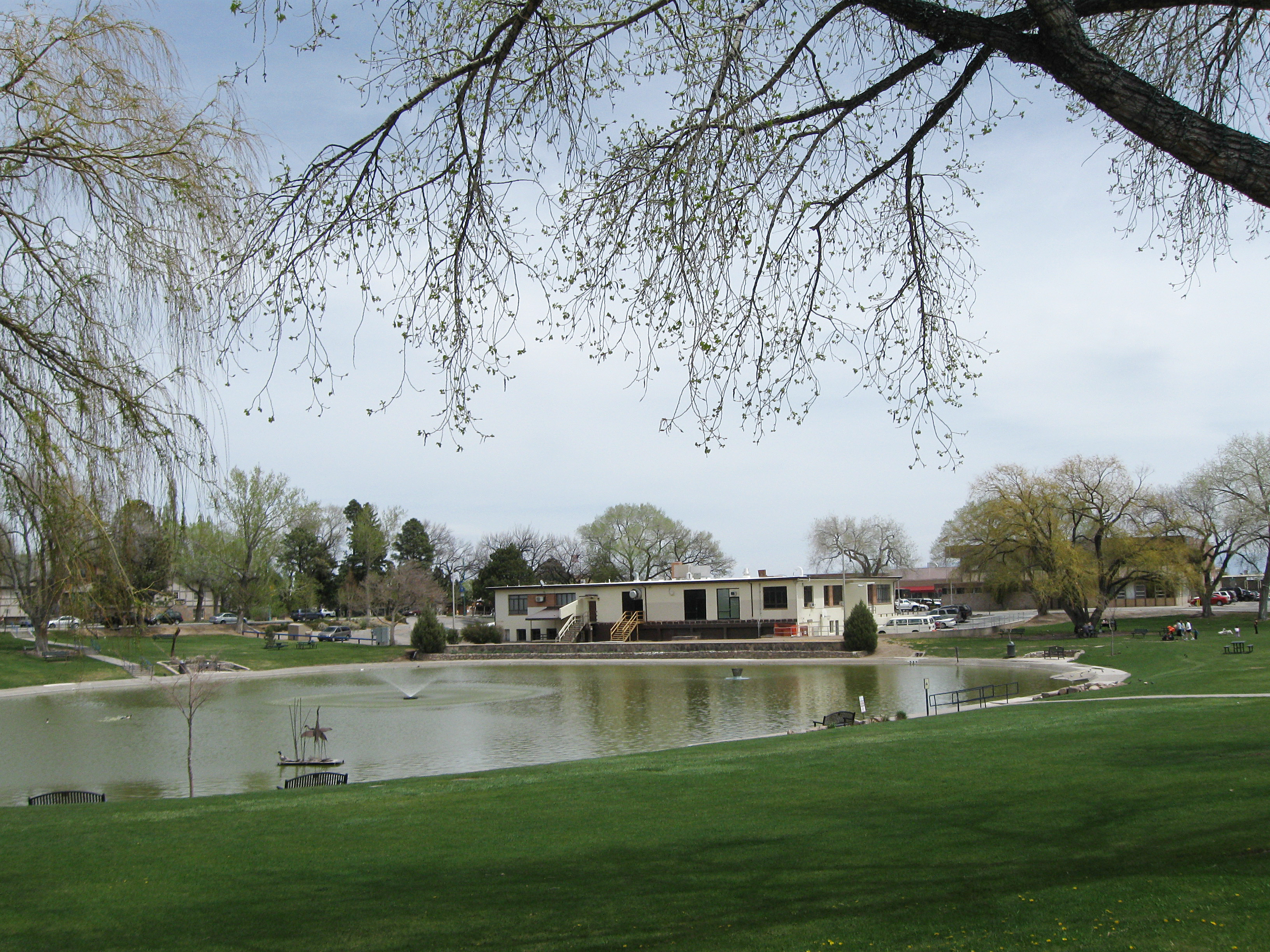 Ashley Pond Park — located at 20th Street between Trinity Drive and Central Avenue in Los Alamos, New Mexico. The building on the far bank is the Los Alamos Community Building at 475 20th Street, which houses the County Council and the Municipal Court.